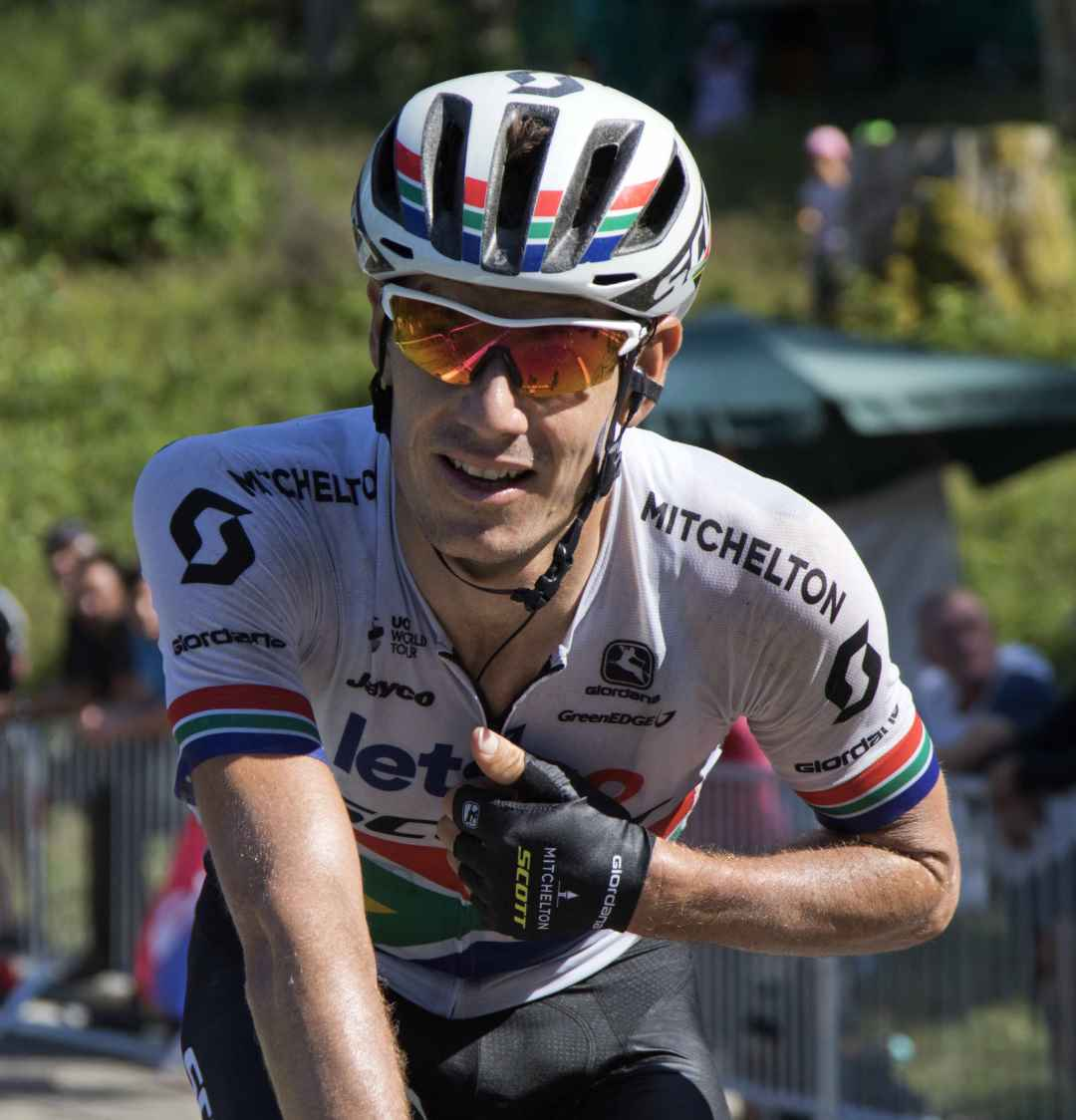 2018 Tour de France